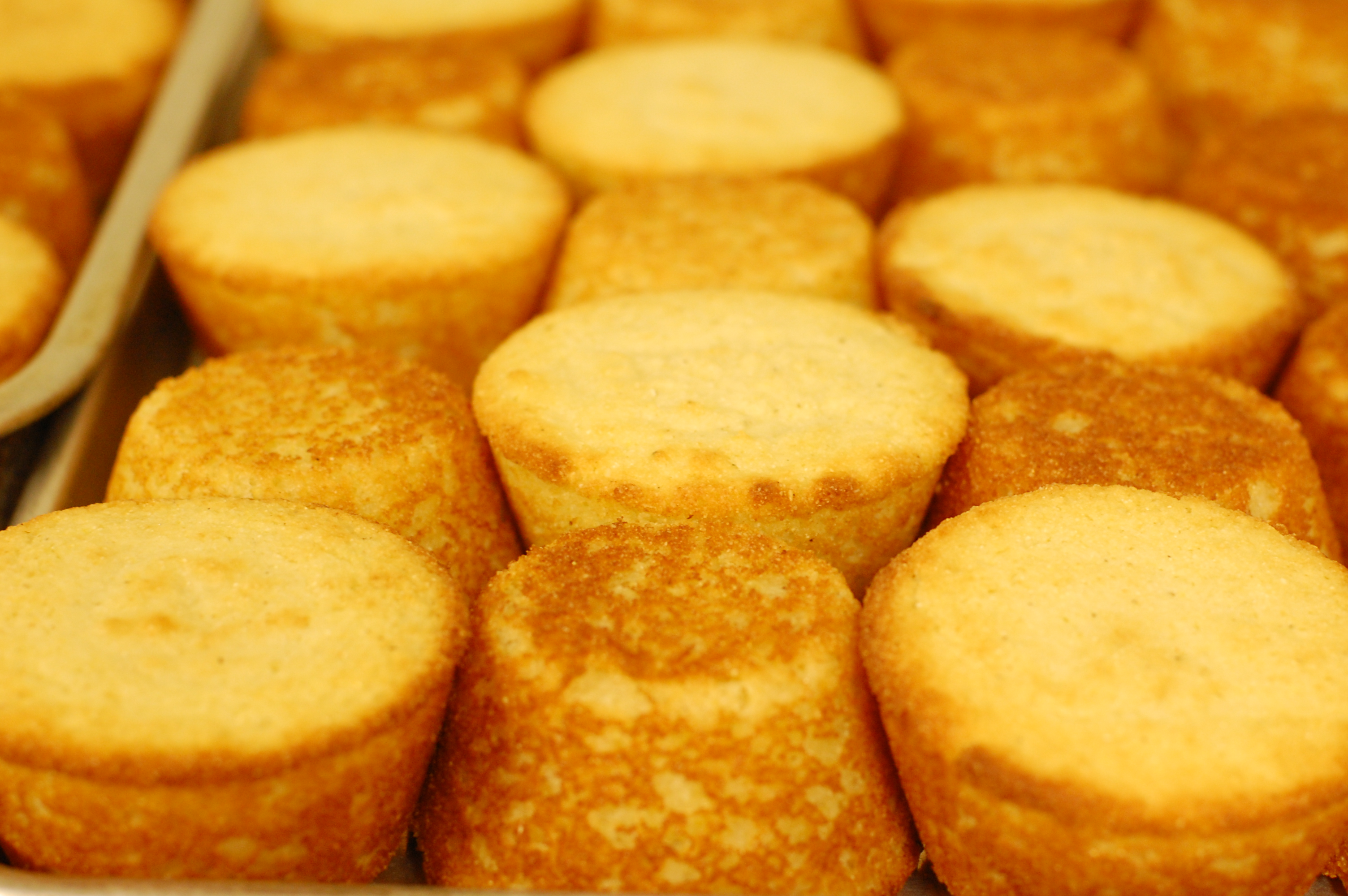 Carter Family Fold - Hiltons, VA Photo by Amy C Evans, SFA oral historian February 2009